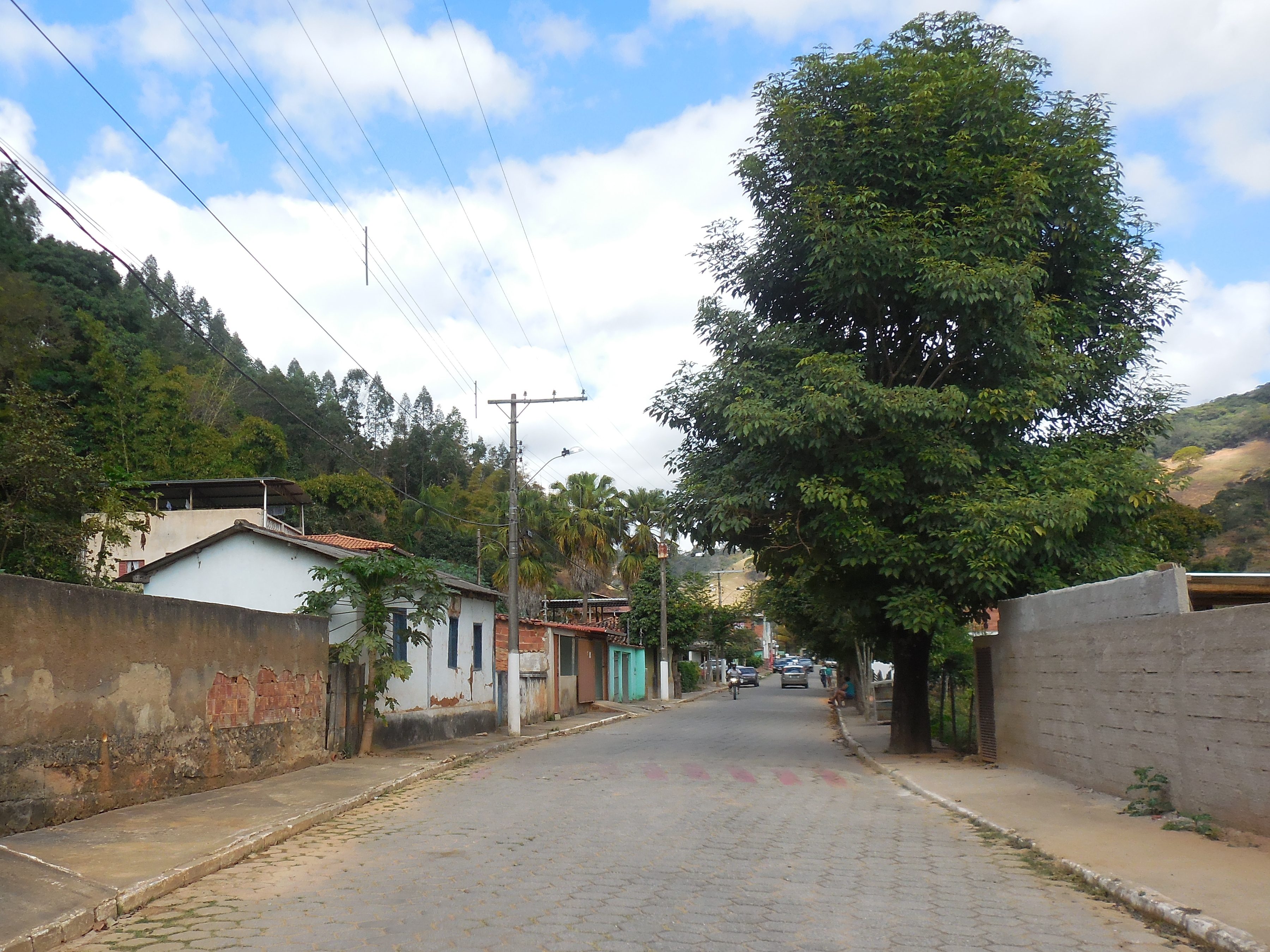 A street in the entrance of Marliéria, Minas Gerais, Brazil.